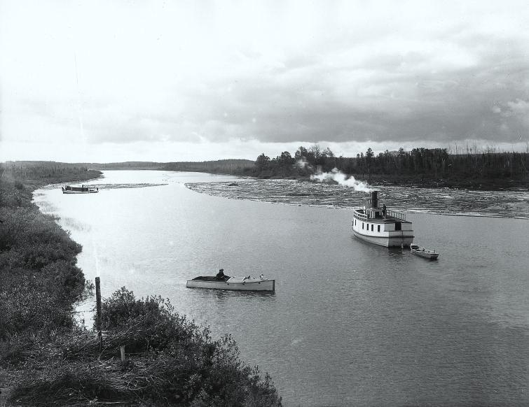 Photograph, Harricanaw River at Amos, Quebec, QC, 1916 (?), Wm. Notman & Son, Silver salts on glass - Gelatin dry plate process - 20 x 25 cm